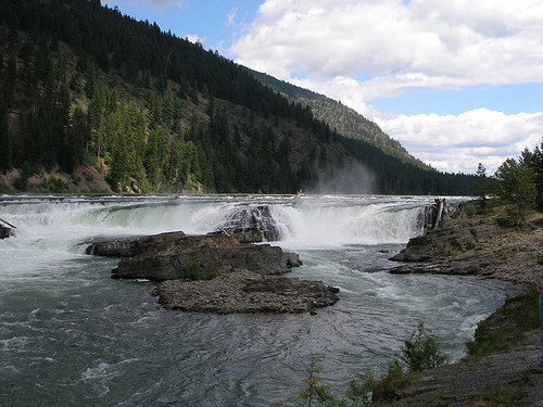 Troy, Montana